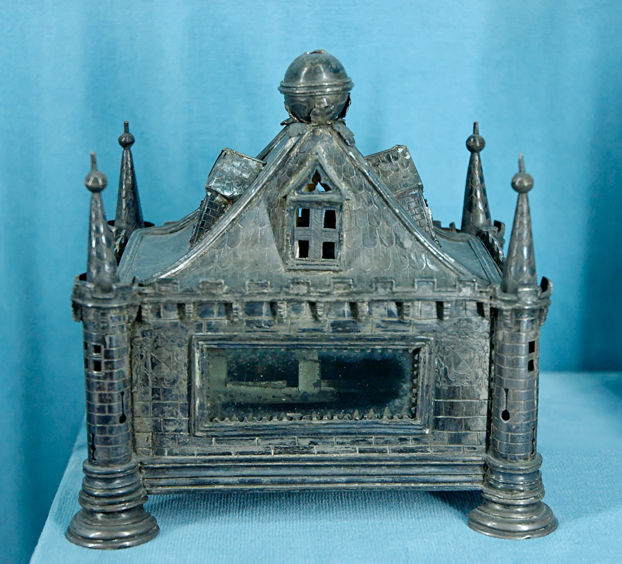 Reliquary of St. Louis of Toulouse. Silver, France, 15th-17th century.